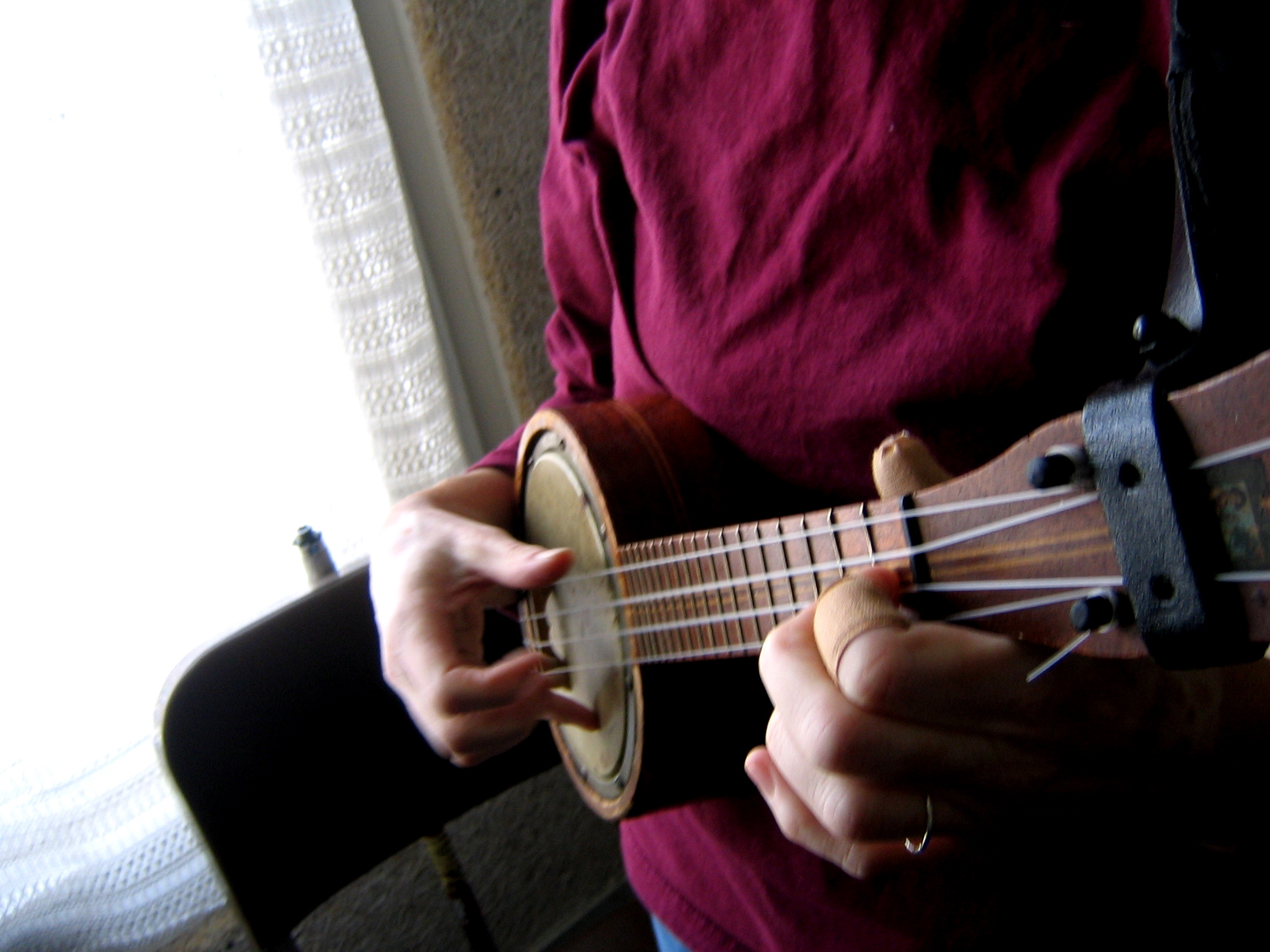 One of the pieces Maine Squeeze did was w/ Barb Truex (who has a show on Wednsdays called "Crossfade" on WMPG) on this beautiful old little banjo ukulele. Barb is found in the loopin' set besides being an active composer, sound designer, & teacher (let's not forget radio host) here in the southern Maine area. For more info on Maine Squeeze Barb Truex has several releases of her own out as well for info on her latest disc ; Scene & Heard, you can go Here OR Here